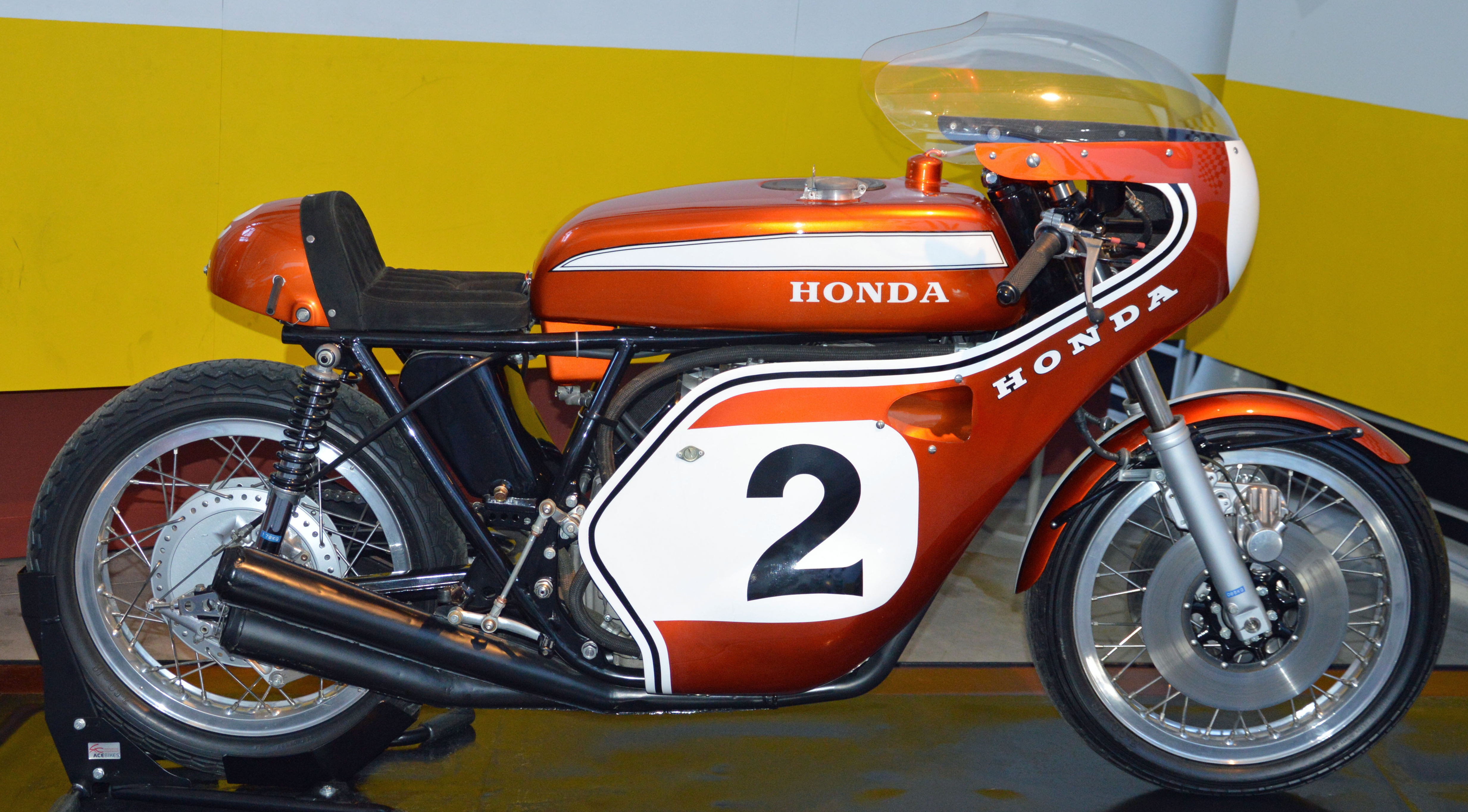 Honda CR750, one of four factory-prepared racers for the 1970 Daytona 200 race in America, based on the then-new CB750 roadster. This bike, ridden to victory by Dick Mann, is on display at Le Musée Auto Moto Vélo, a transportation Museum in Châtellerault, France.